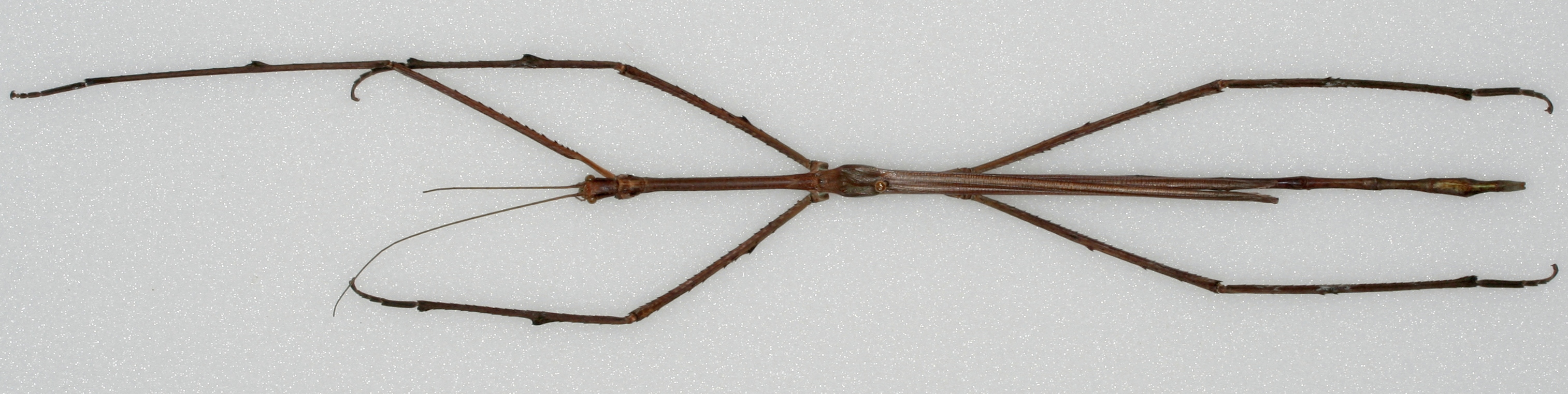 Photograph of the stick insect Phobaeticus chani Bragg, 2008. The photograph shows a male paratype.